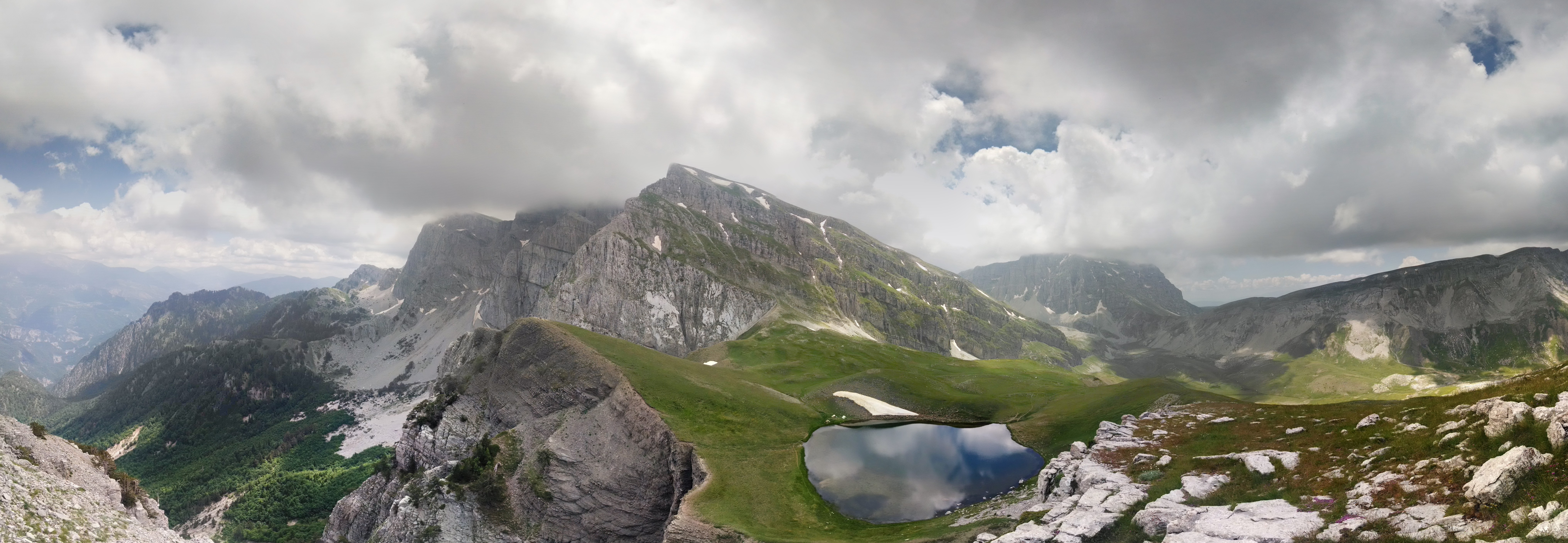 Panorama of Tymfi, with Gamila (2.497 m) in clouds, Ploskos (2.377 m) in the centre and below it Dracolimni, and behind to the right Astraka (2.436 m.) and to the left Lapatos (2.251 m) This is a photography of Natura 2000 protected area with ID GR2130009